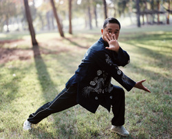 Master Zhou Jing Xuan demonstrating Pigua Zhang's Dan Pi Zhang (single splitting palm). HaYarkon Park, Tel-Aviv, summer 2010.